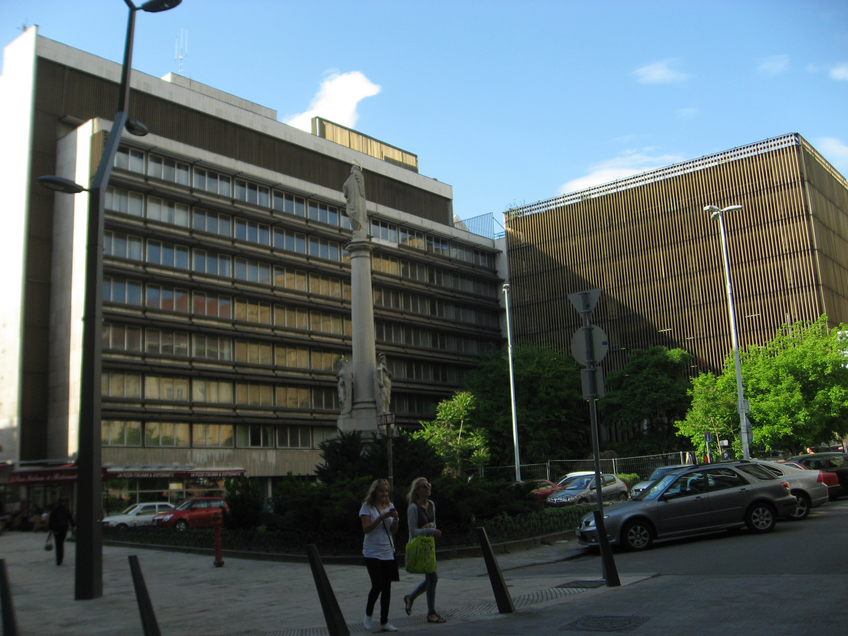 Szentháromság-szobor, mögötte a Parkolóház. V. kerület. Szervita tér